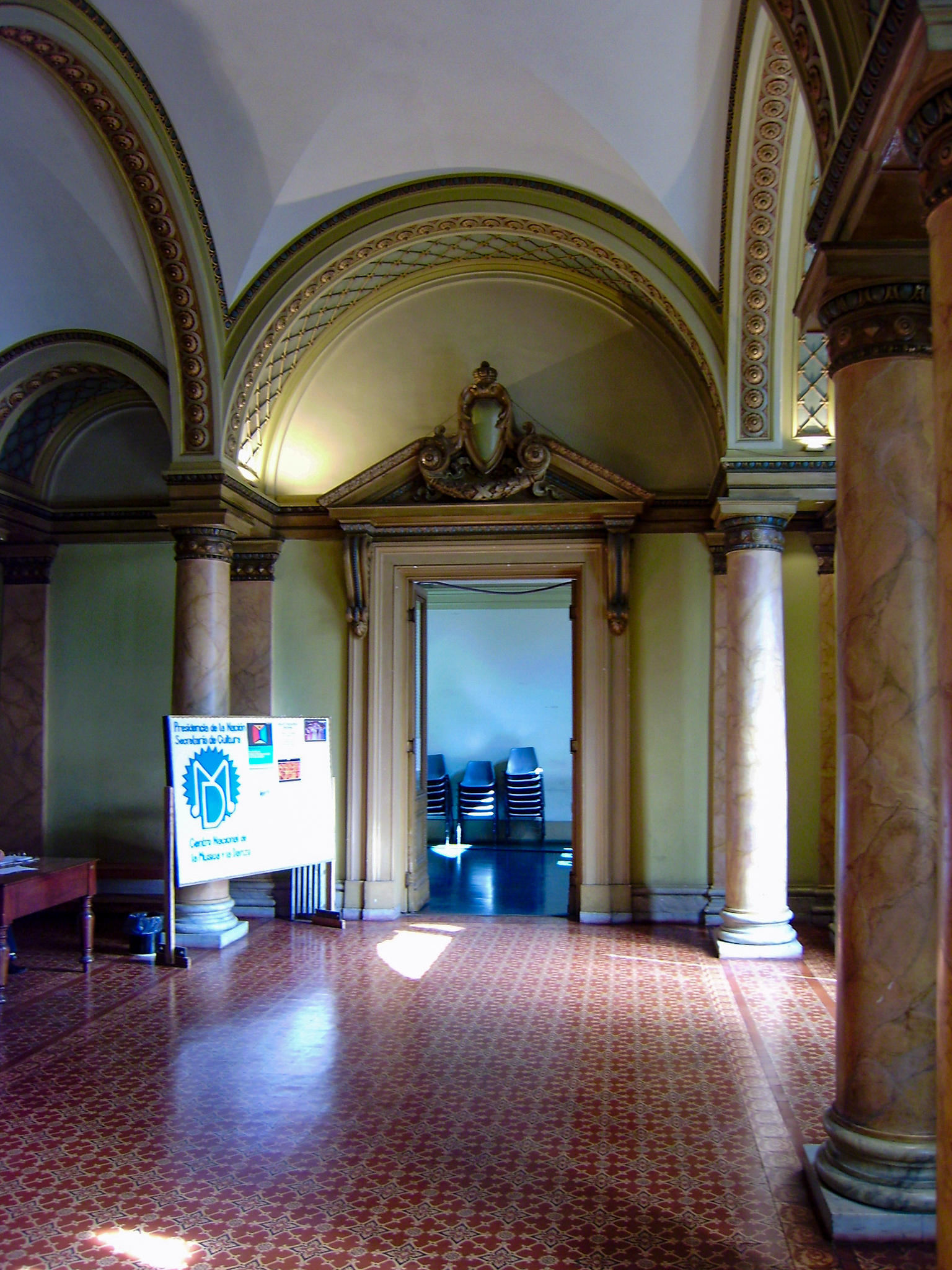 Former Argentinian National Library in Mexico street in Monserrat, Buenos Aires.